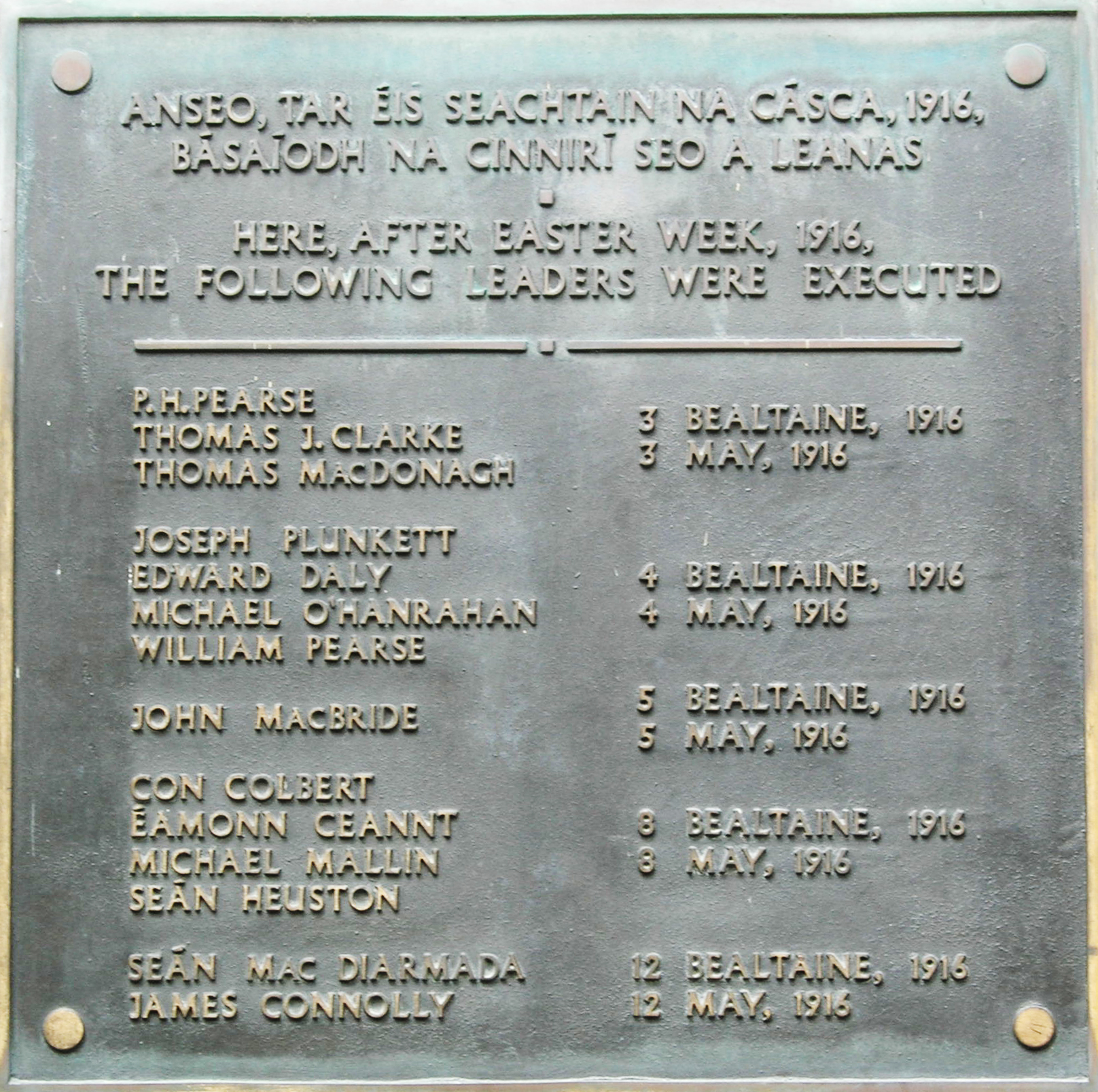 Description =Prison de Kilmainham Source =Photo taken by Remi Jouan Date =Mai 2006 Author =Remi Jouan